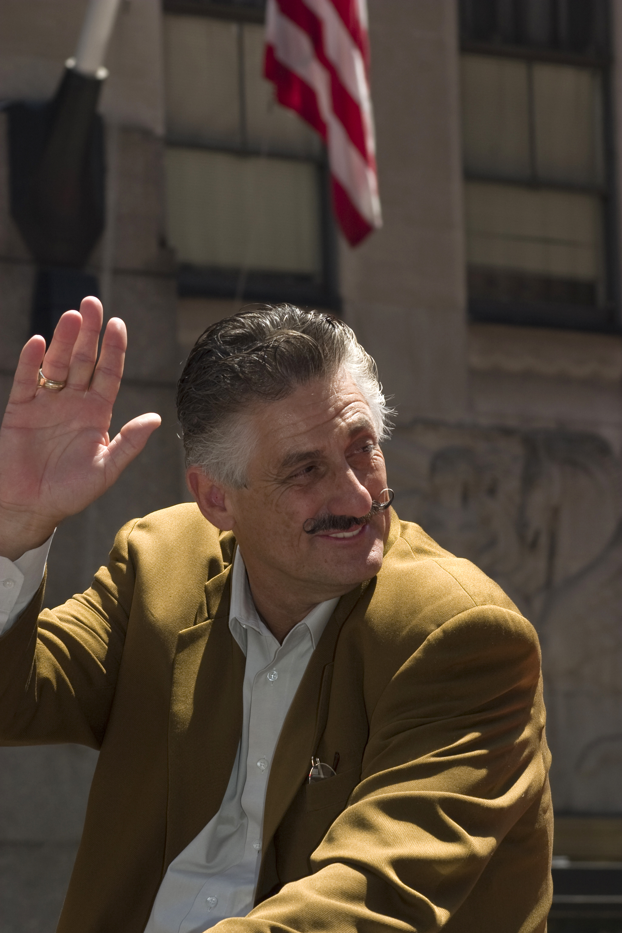 Baseball player Rollie Fingers. © Rubenstein, photographer Martyna Borkowski